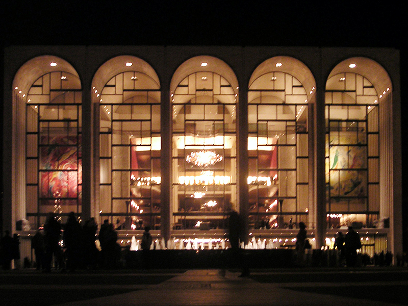 Photograph of the facade of the Metropolitan Opera House at Lincoln Center, New York, New York. Taken on 12 March 2004 by Paul Masck and released with a Creative Commons license on 30 July 2005 by the photographer.